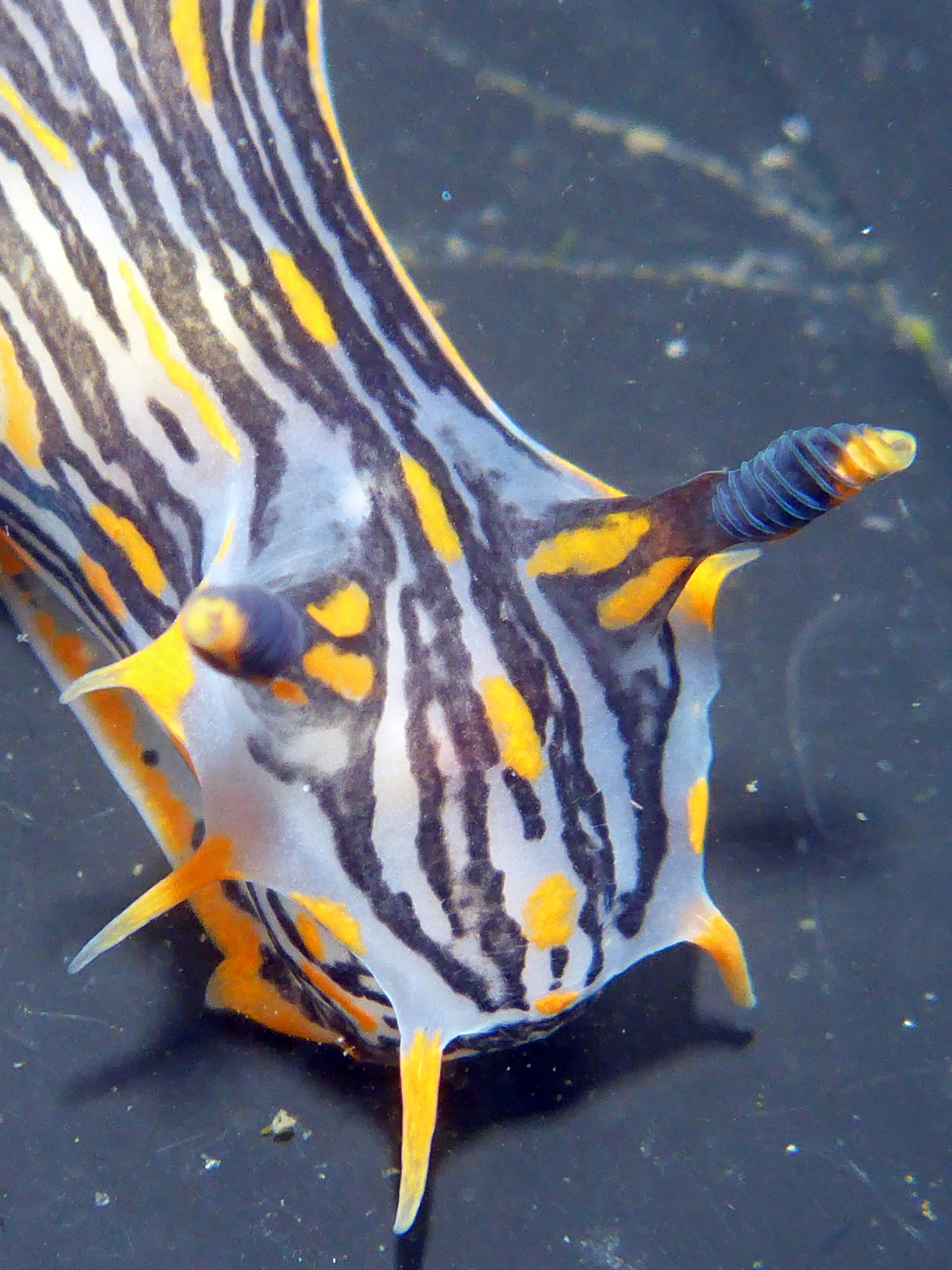 Polycera atra head detail